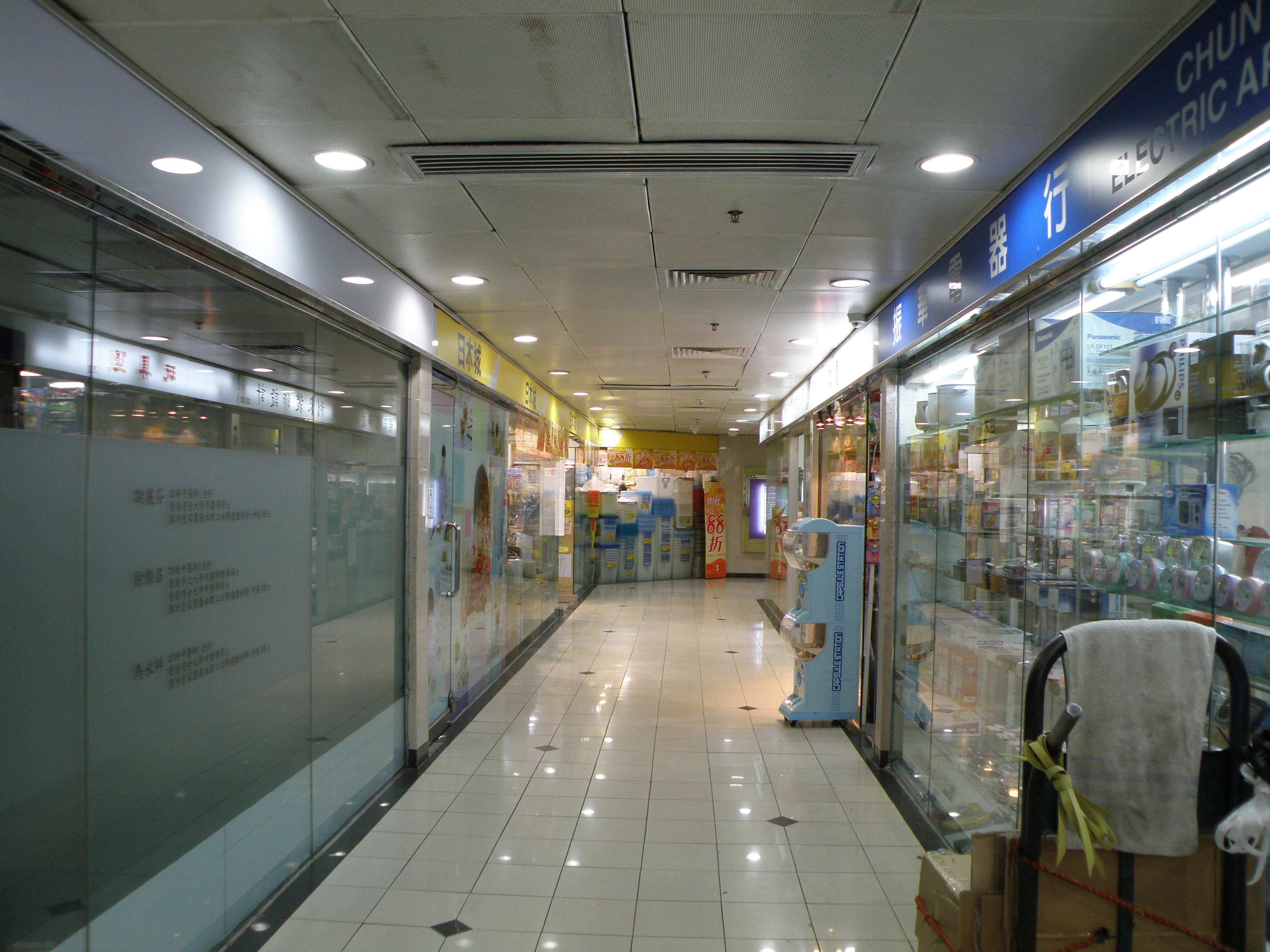 Ping Tin Shopping Centre in Lam Tin, Hong Kong.